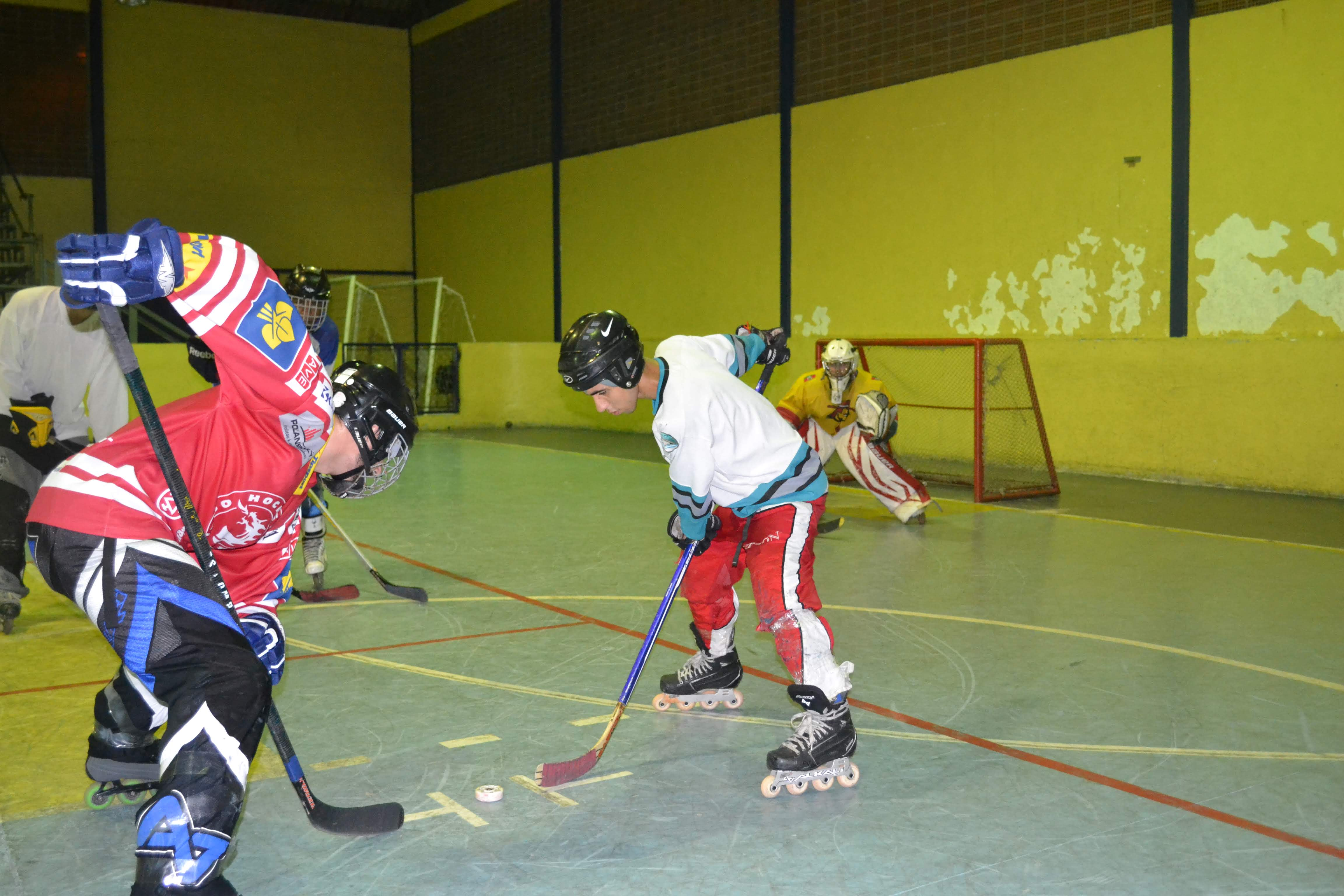 Inline hockey players from Brazil.